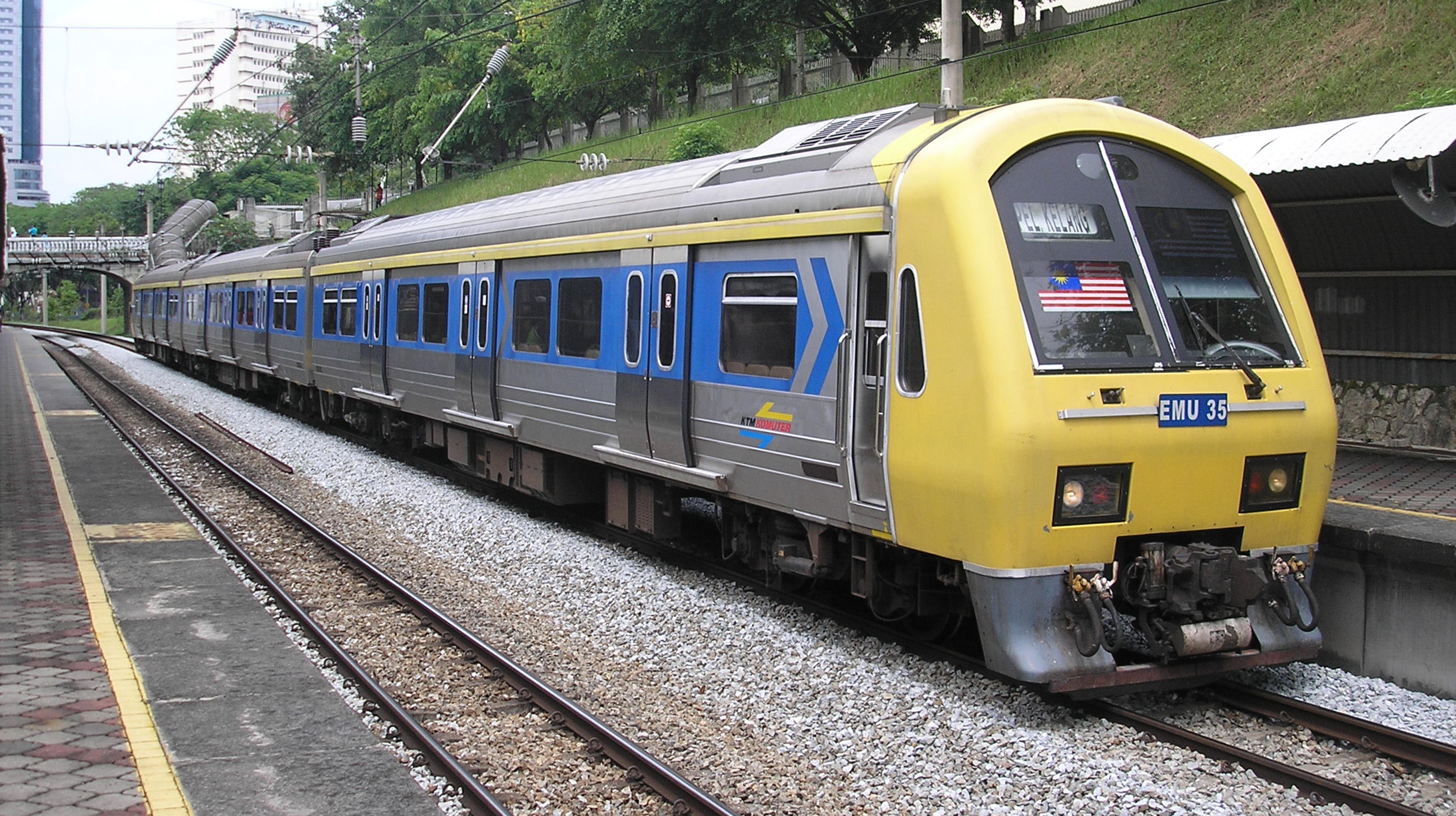 A class 83 KTM Komuter electric train (Hyundai Marubeni/Mitsubishi Electric, South Korea/Japan) (Designation: EMU 35) at the Bank Negara Komuter station, Kuala Lumpur, Malaysia.